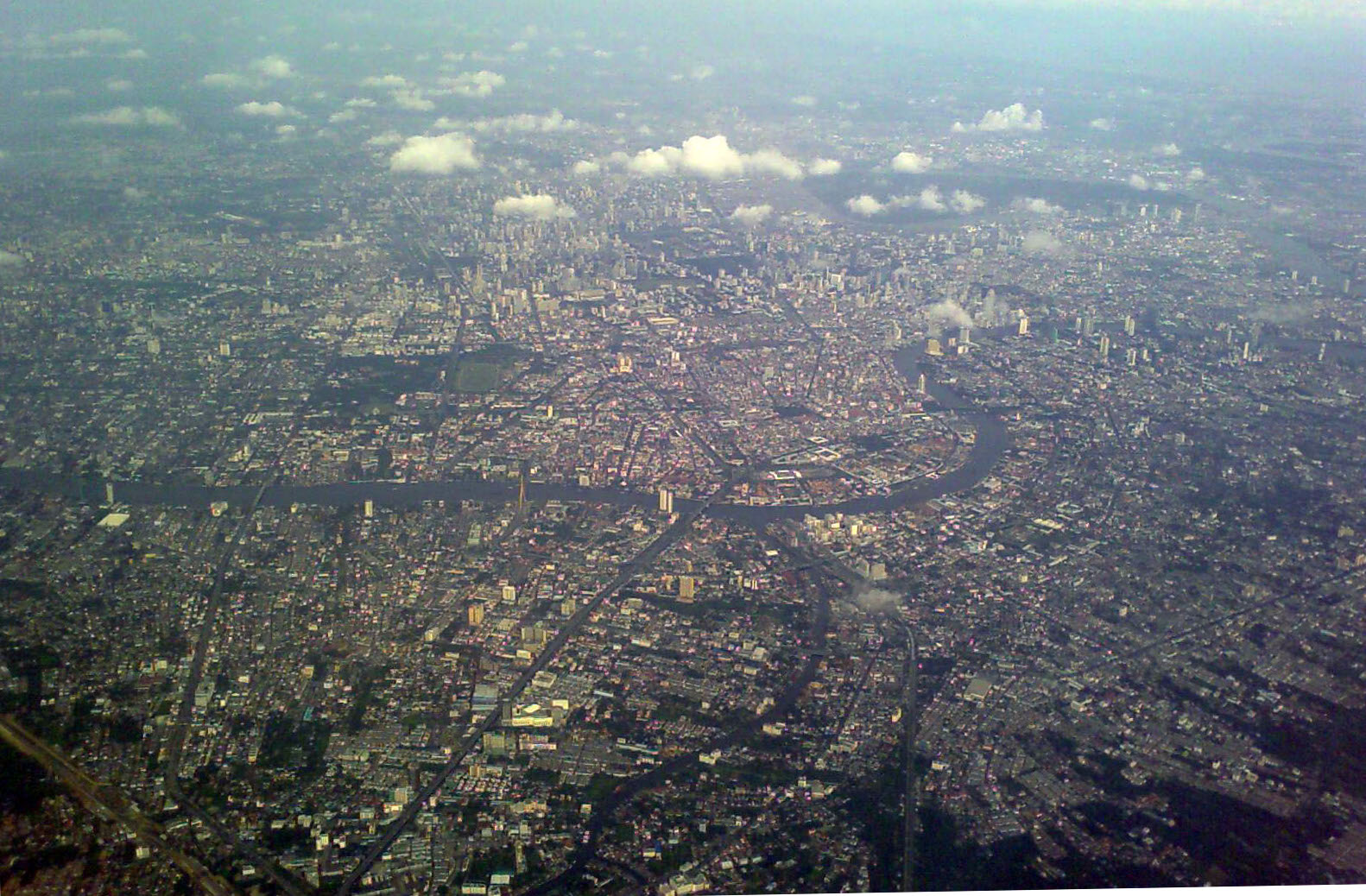 Aerial photograph of Bangkok showing the Phra Nakhon and old city area at the centre